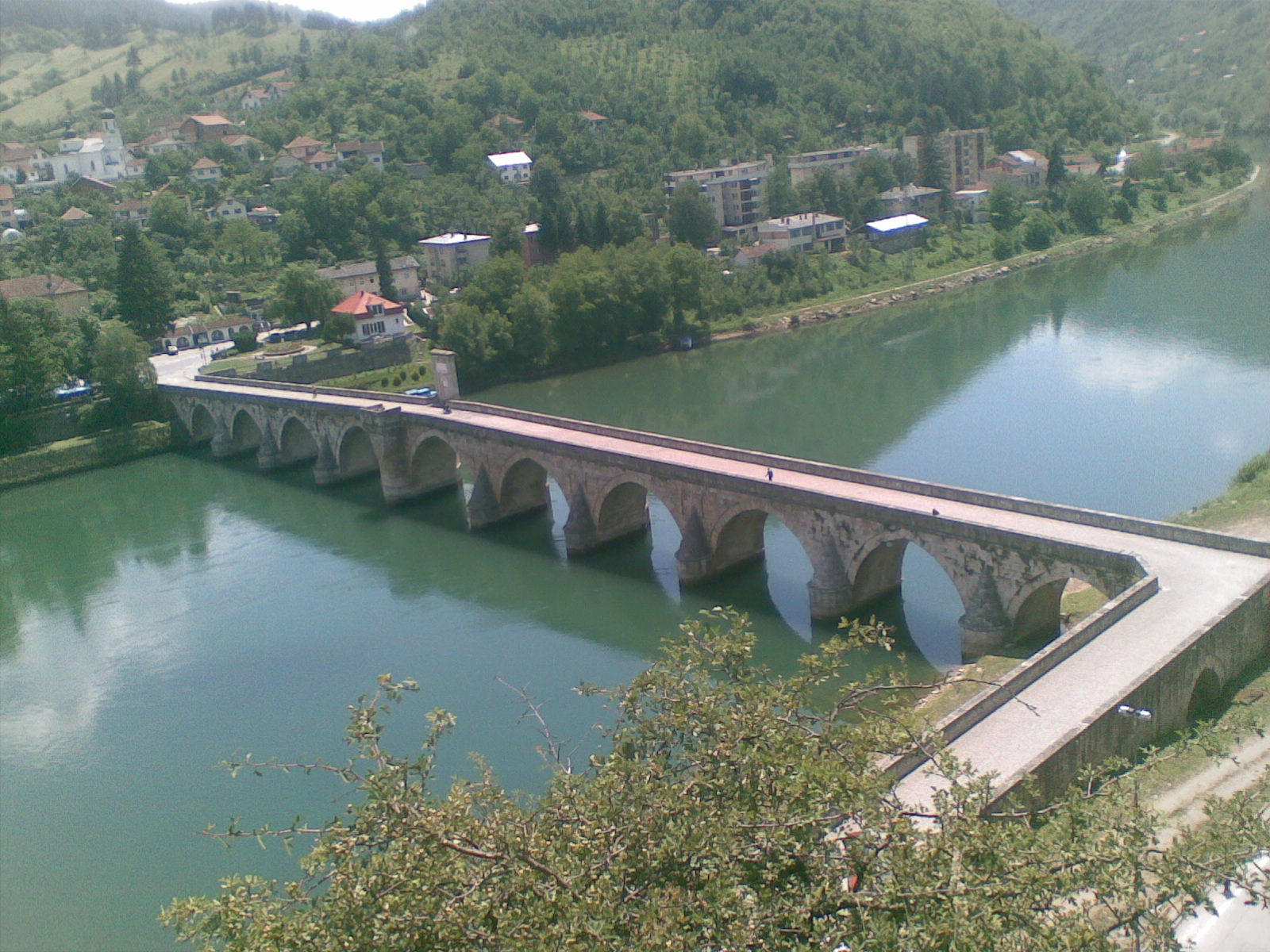 Bridge over Drina River in Višegrad, Republika Srpska